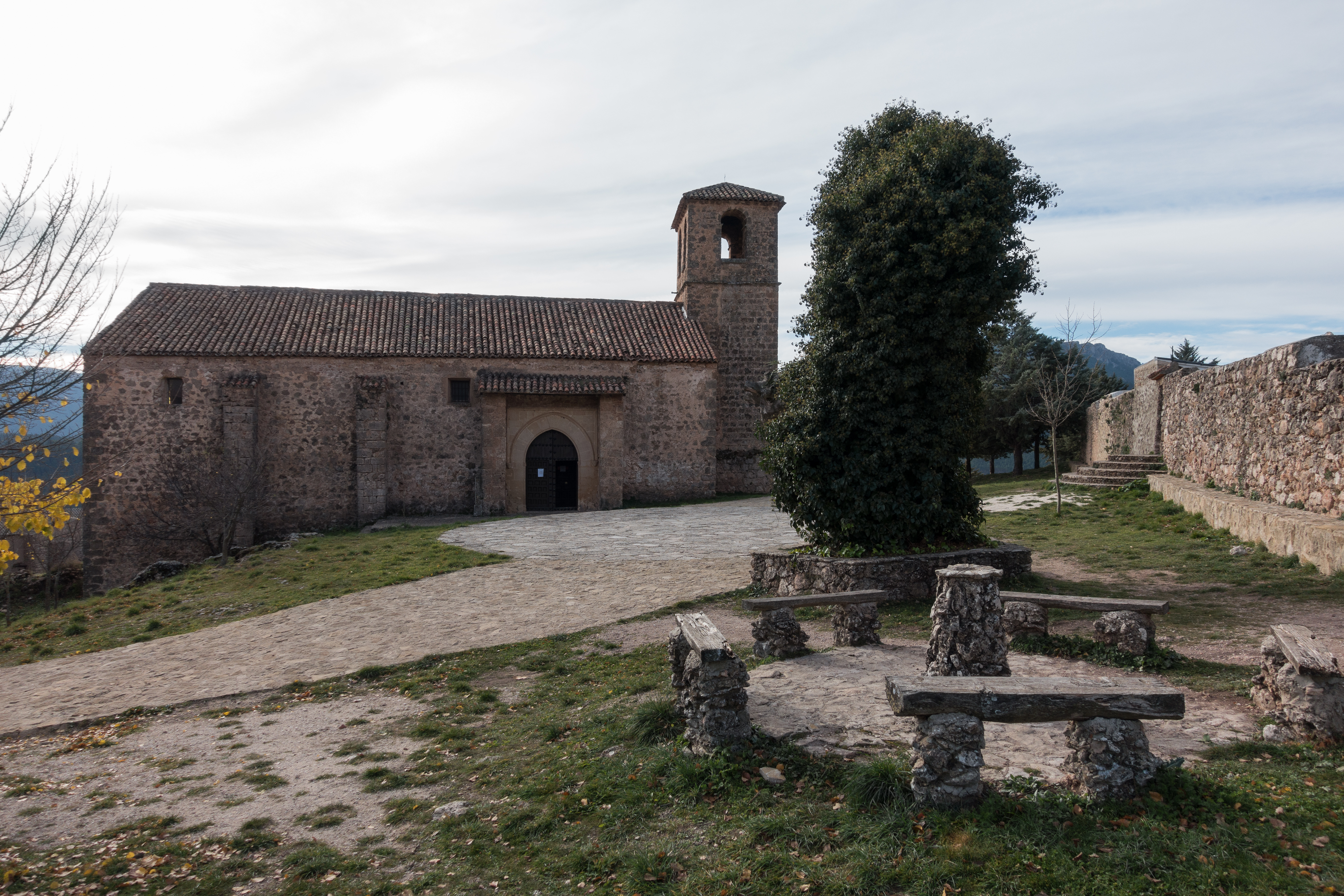 Parish Church of Riópar Viejo in Albacete, Spain.